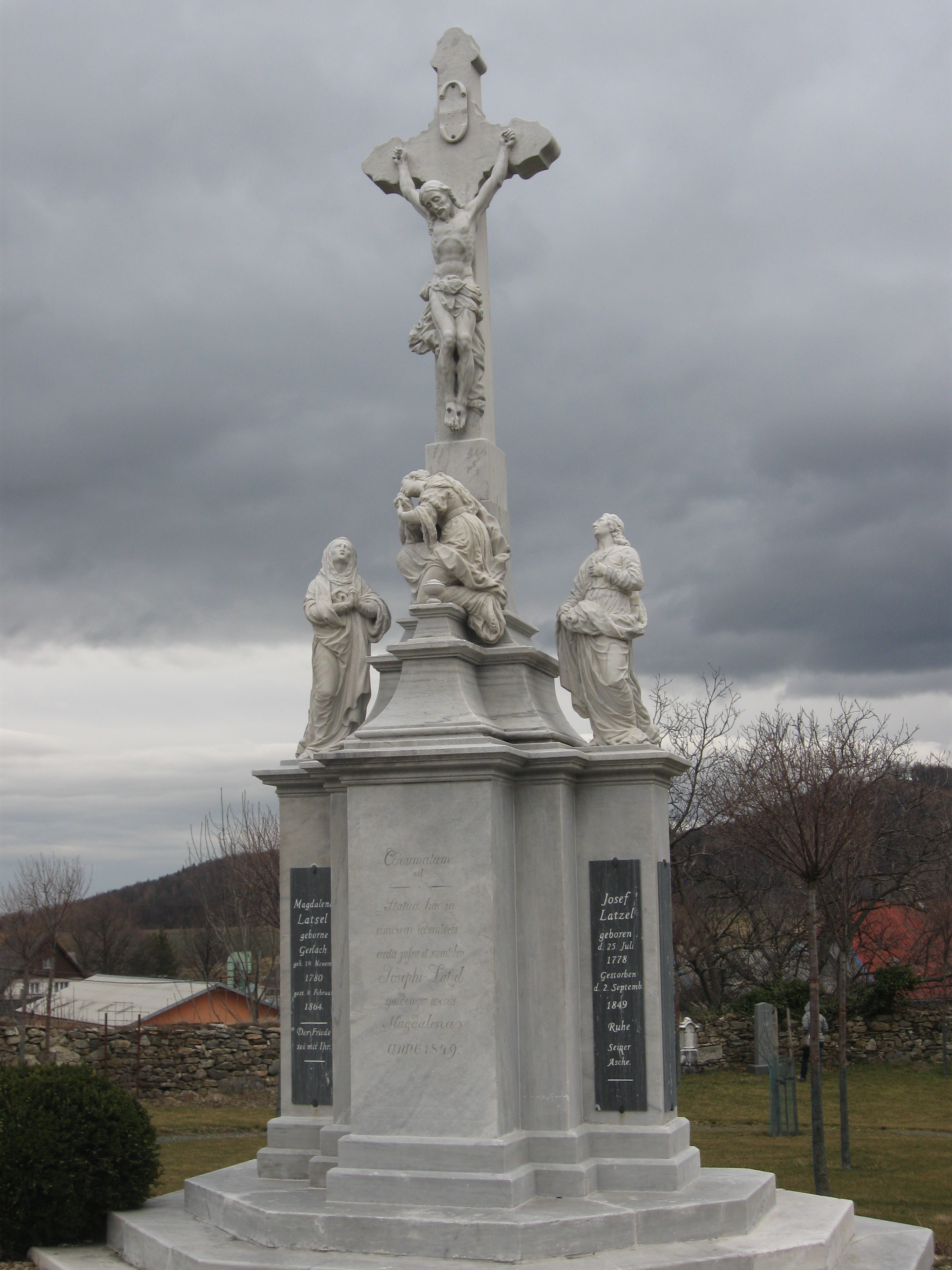 Statue of Crucifixion on old cemetery, probably work of Cyril Kutzer, created 1847-1849